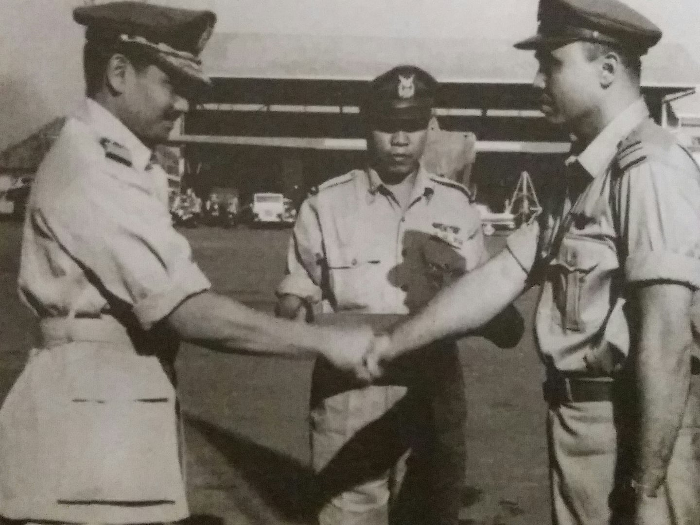 Partono as Commander of Wing 011 Garuda and Air Marshall Omar Dani, commander of the Indonesian air force - 1962